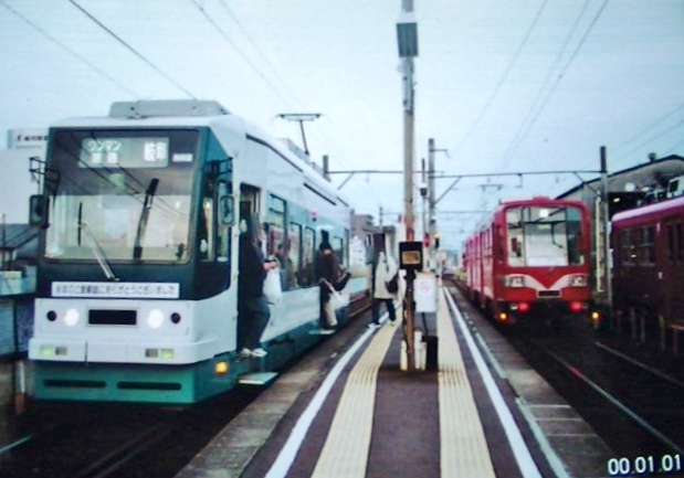 Meitetsu Tagami line Ichinotsubo station Platform (2001)